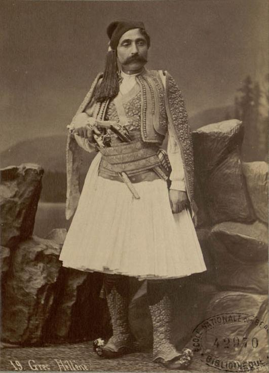 A Greek Hellene in Fustanella.